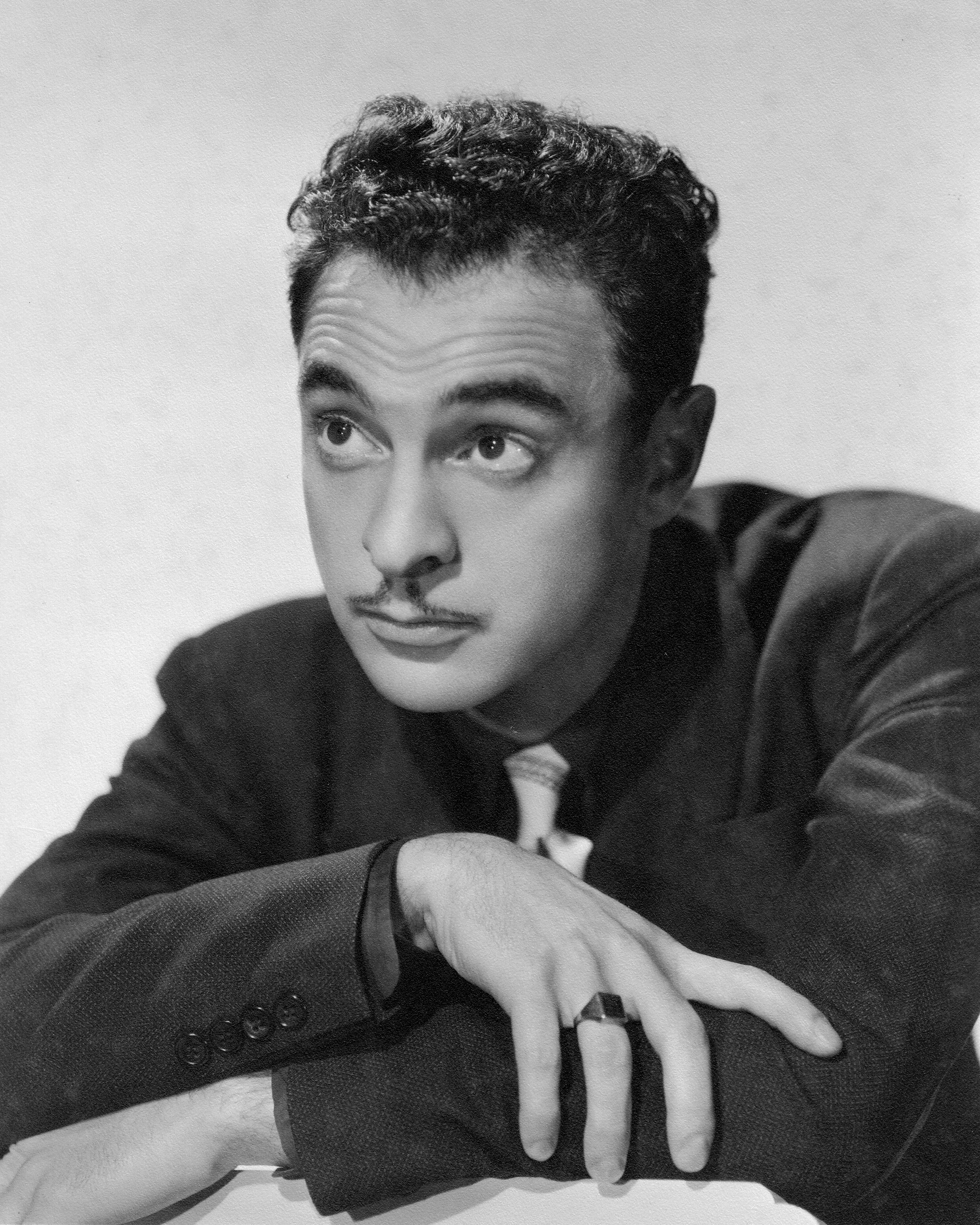 Sam Levene